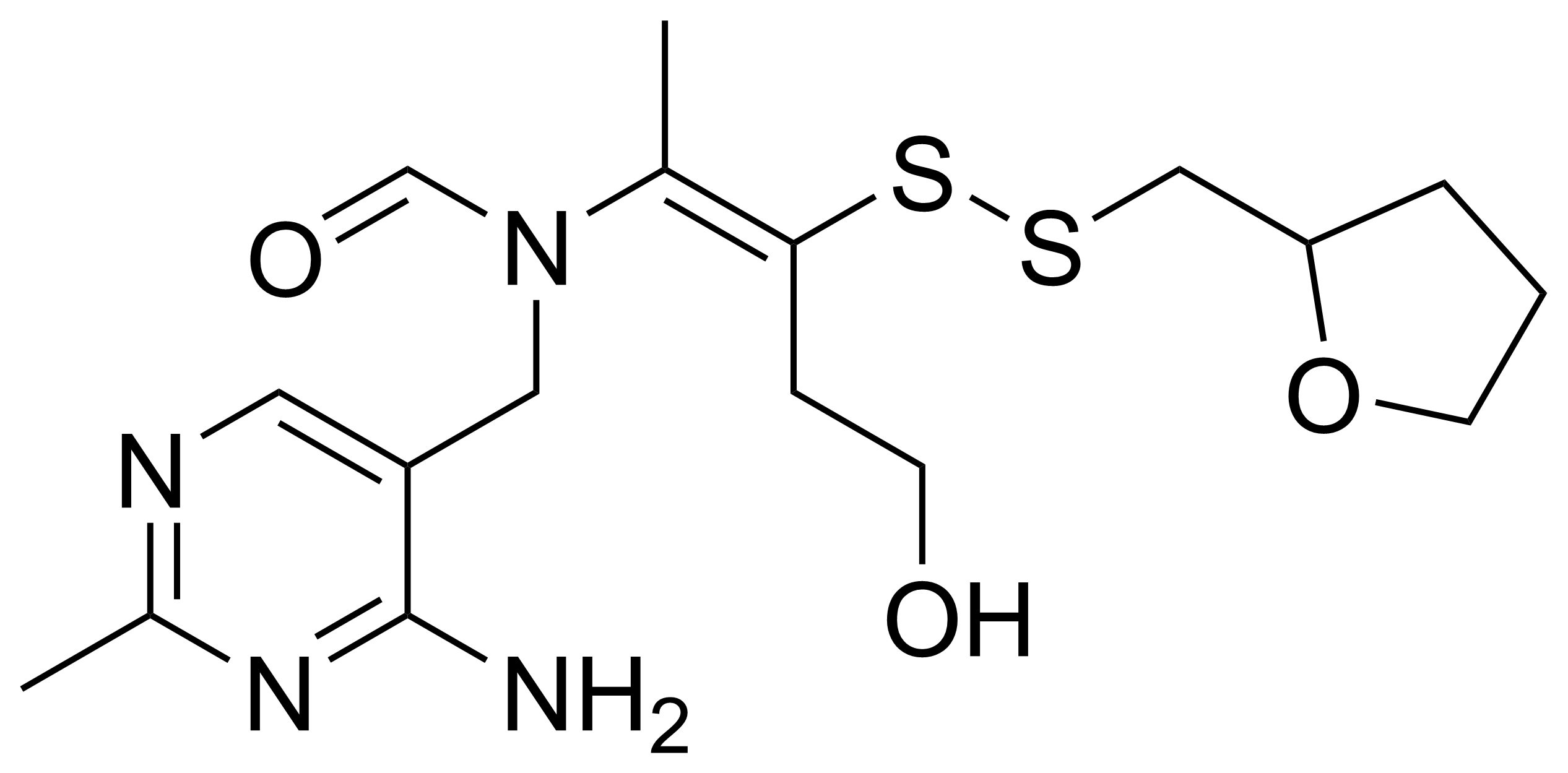 Chemical structure of fursultiamine.